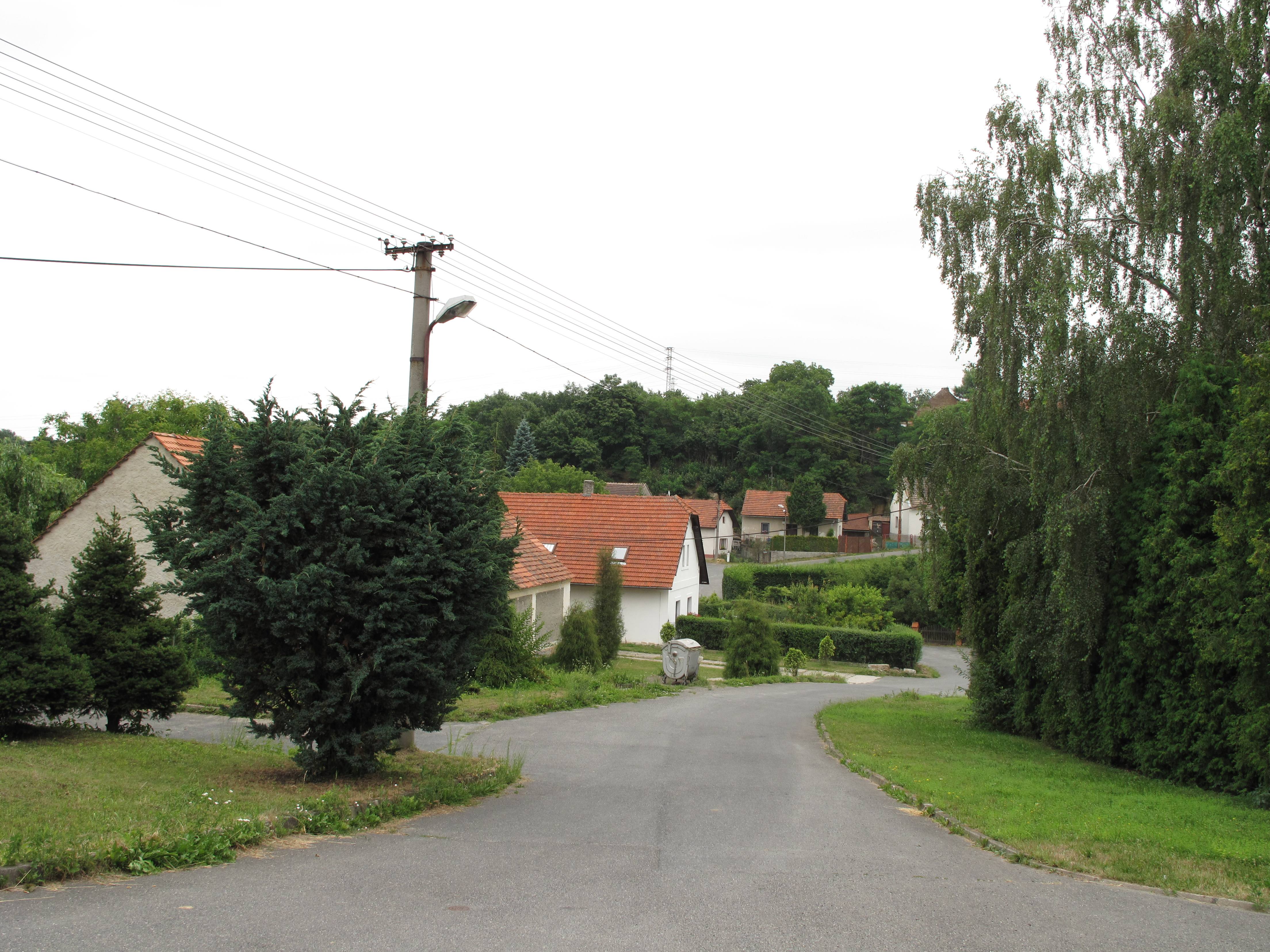 This photograph was taken within the scope of the second year of the 'Czech Municipalities Photographs' grant.